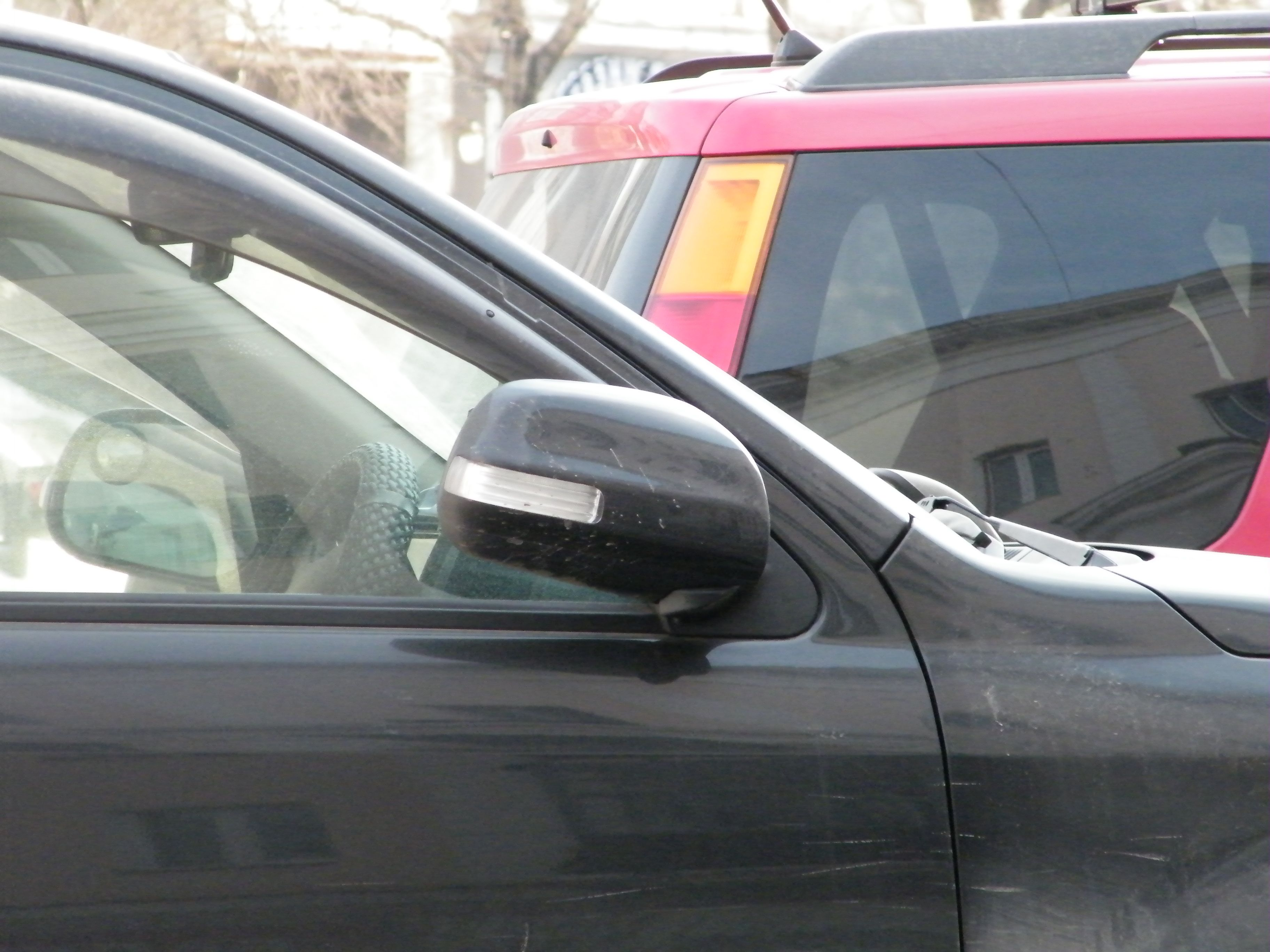 Automobile door mirrors